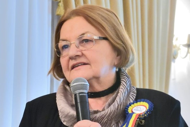 Photo of Mihaela Miroiu in 2018